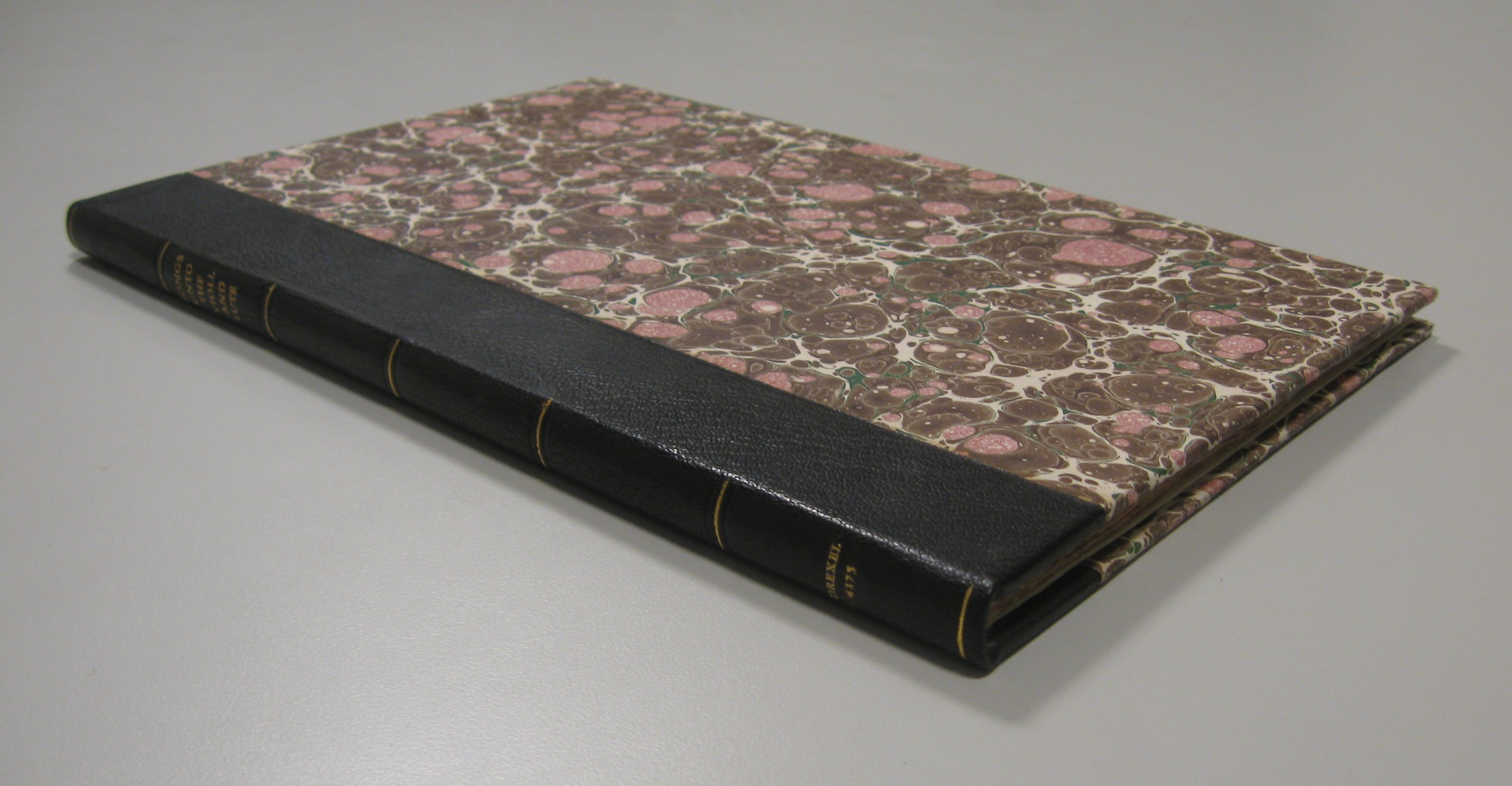 Drexel 4175, a music manuscript which is an important source for seventeen-century English song, belonging to the New York Public Library